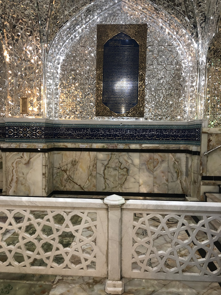 Shah Abdul Azim